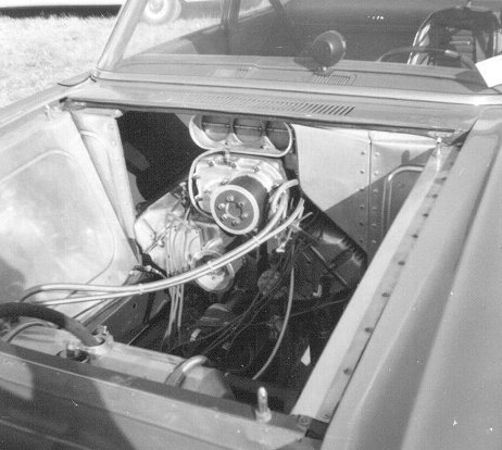 Jack Chrisman 427 Ford SOHC cammer in his Comet.